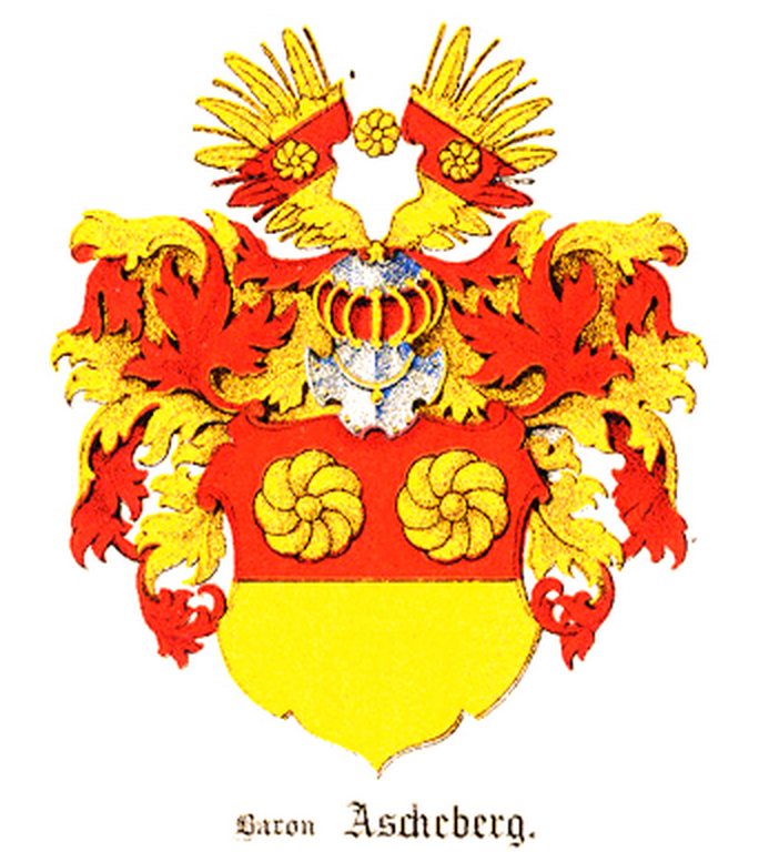 Coat of Arms of Ascheberg family